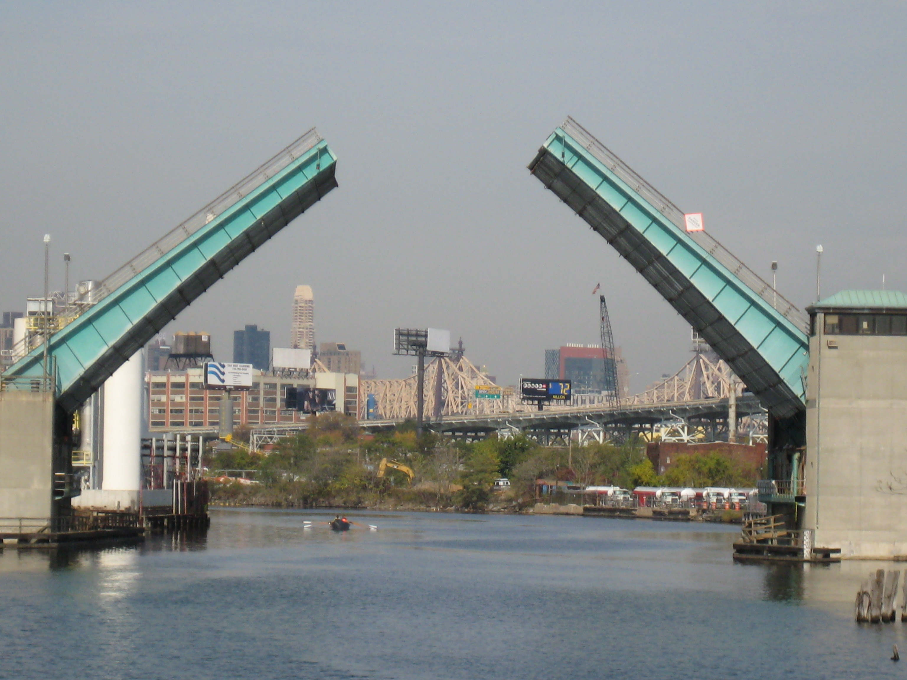 The Greenpoint Avenue Bridge (aka the J.J. Byrne Memorial Bridge) with its bascule span opened, viewed from a ship on Newtown Creek. This bridge opened in 1987, replacing a 1900 bridge (subsequently heavily rebuilt in 1919) on the same site.